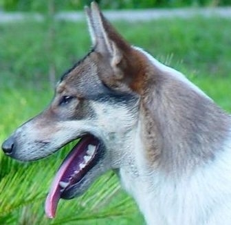 image of a West Siberian Laika